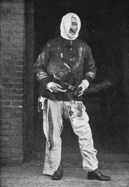 Commander McGiffin in hospital after the Battle of the Yalu.